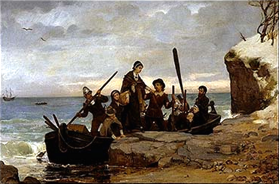 The Landing of the Pilgrims.